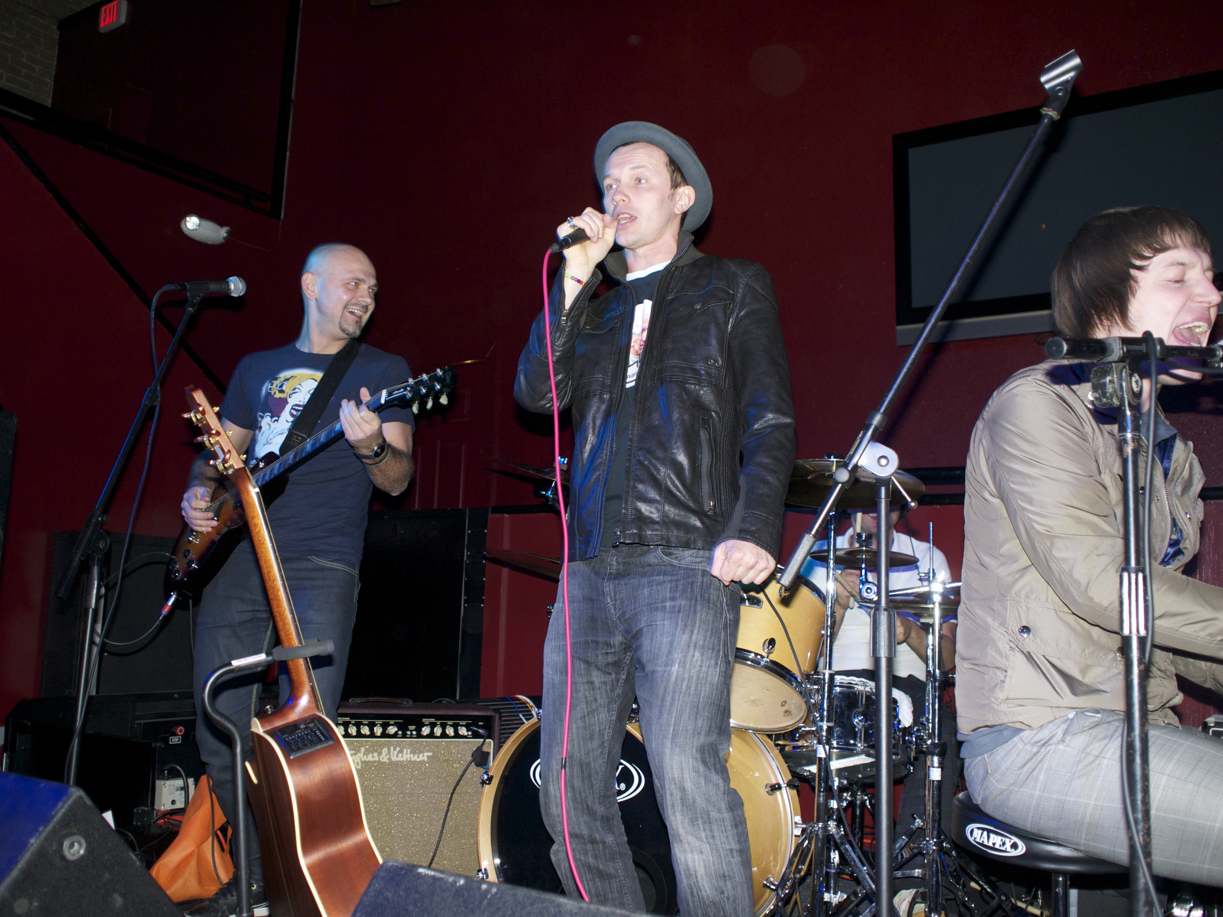 Latvian pop/rock band Brainstorm (2010)